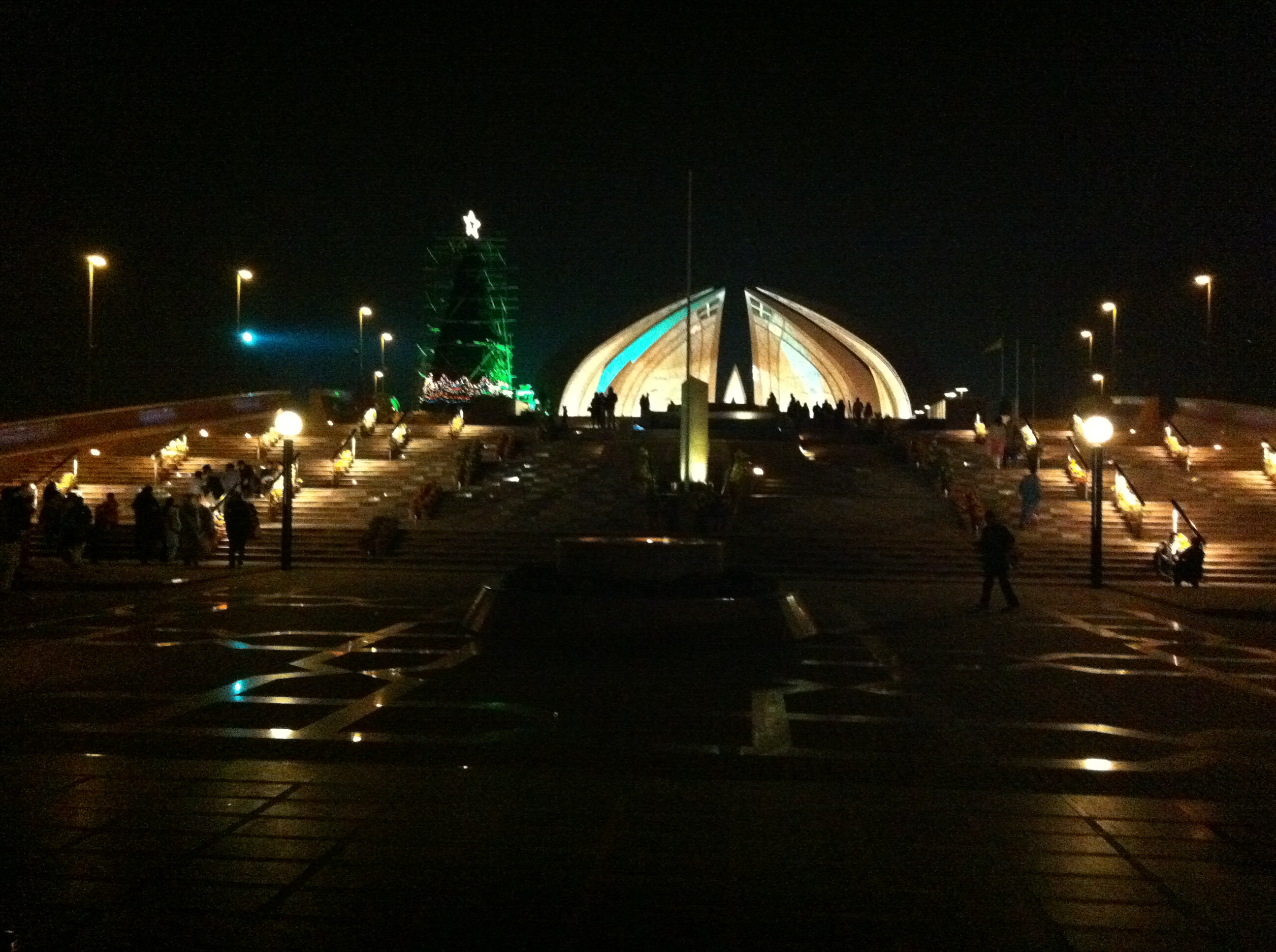 Pakistan Monument This is a photo of a monument in Pakistan identified as the ICT-4